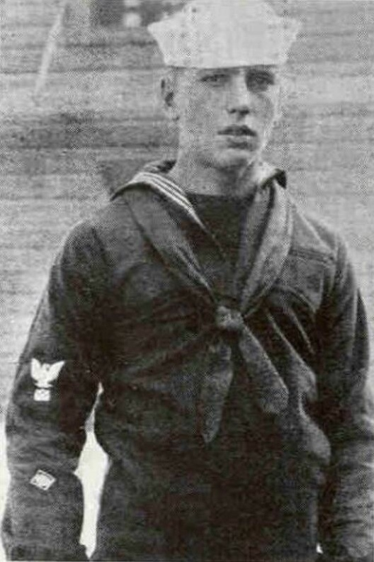 Yearbook photo of Humphrey Bogart (1918)